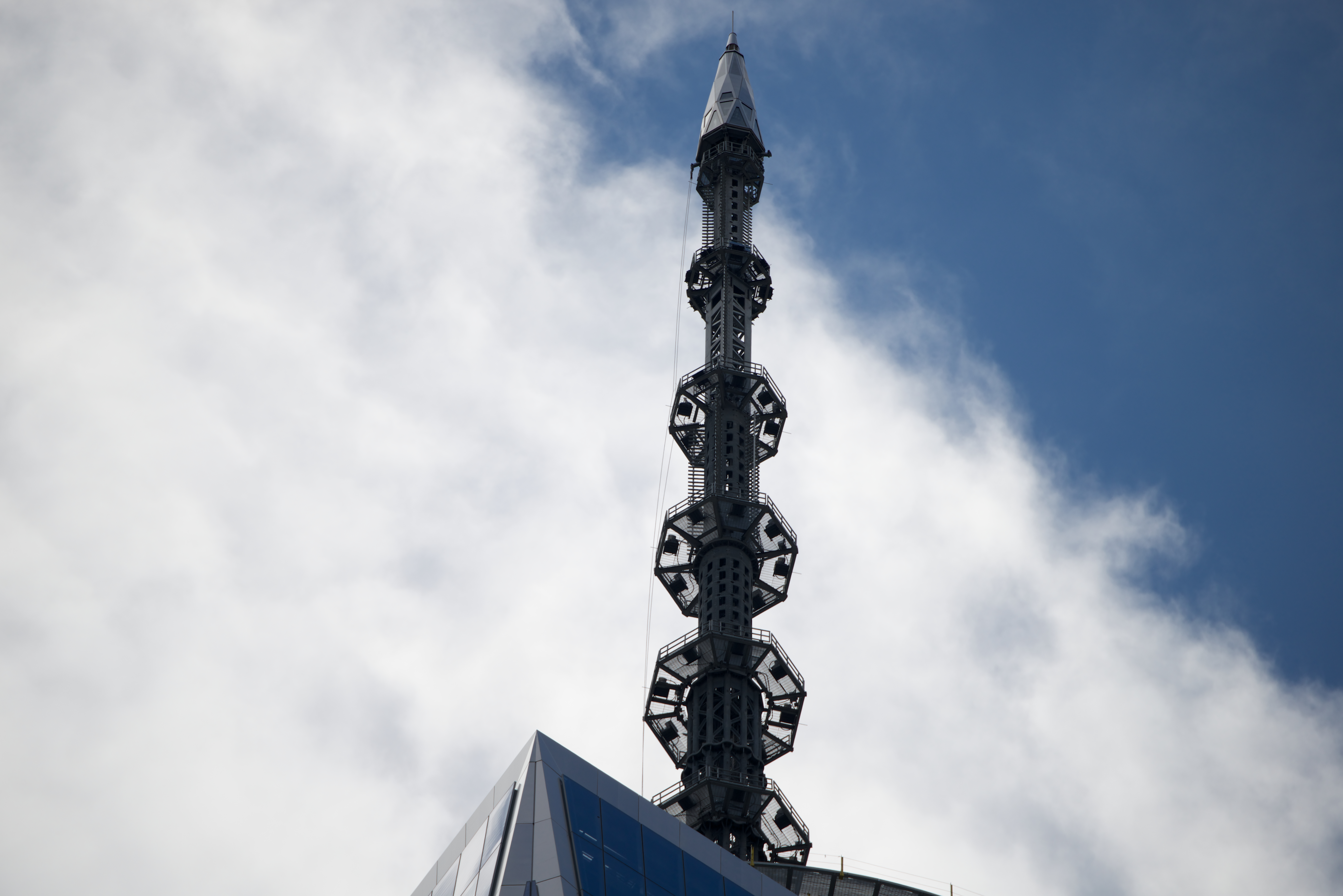 Antenna on the top of One World Trade Center building as viewed from the ground.